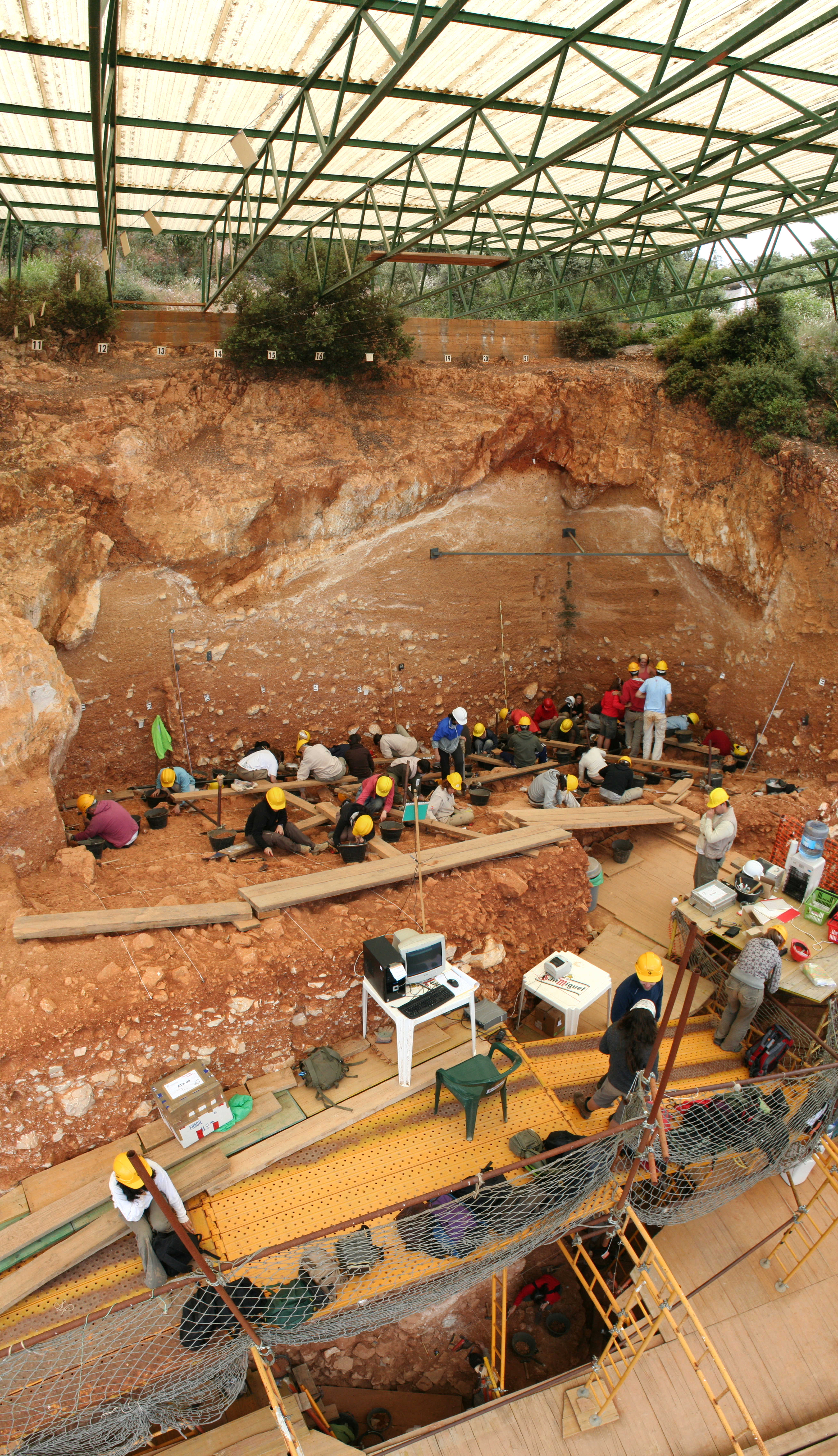 Excavations at the site of Gran Dolina, in Atapuerca (Spain), during 2008. Panoramic photography formed using 3 individual photographies with Hugin software. TD-10 archaeological level is being excavated where the most of the people are. It is a Homo heidelbergensis camp. Under the plank, we can observe a woman with red sweatshirt excavating TD-6 archaeological level, where were found the first remains of Homo antecessor.